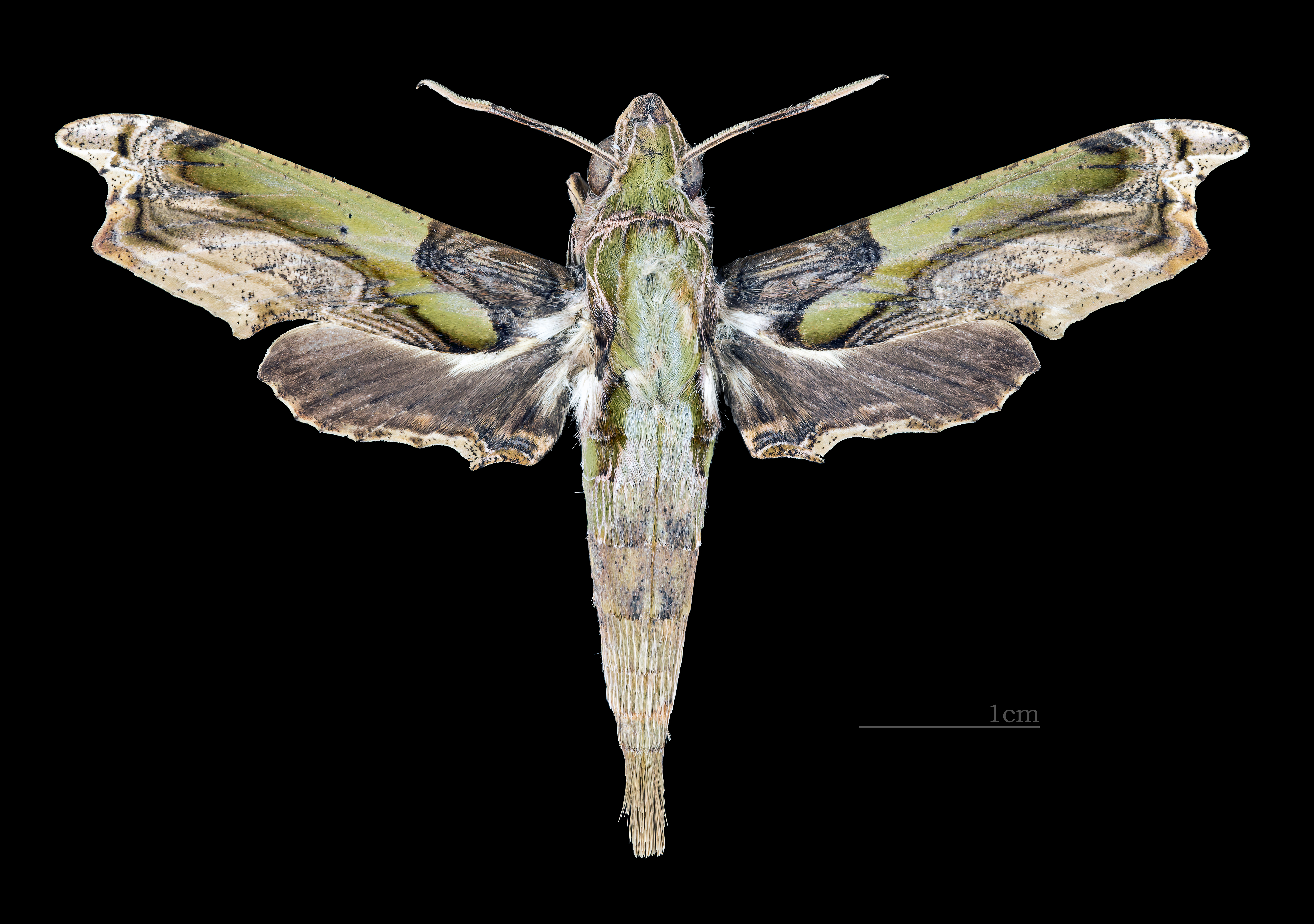 Eupanacra busiris - Dorsal side Collection of the Mathematician Laurent Schwartz